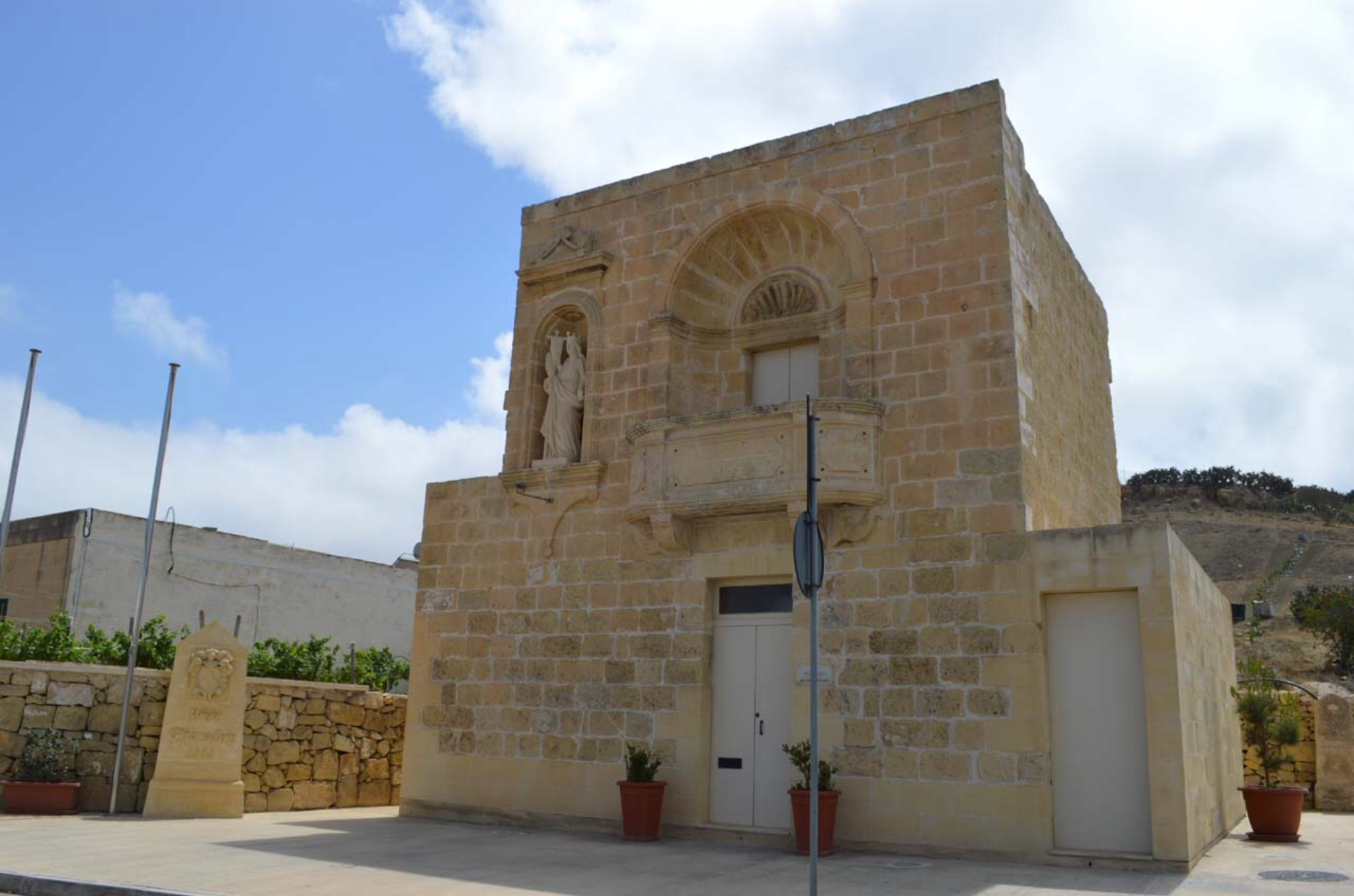 Dar il-Gvernatur